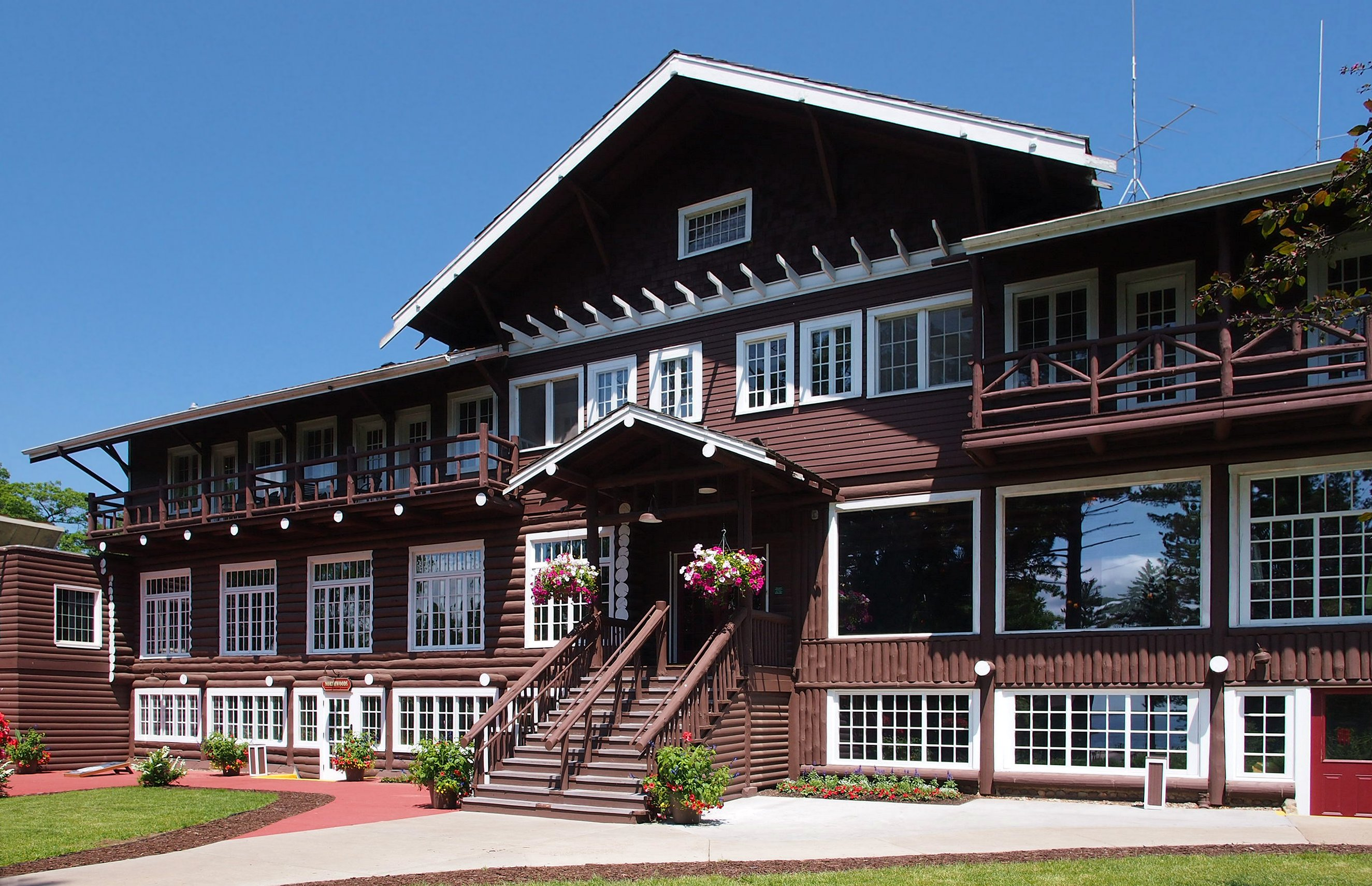 Grand View Lodge, 23521 Nokomis Ave, Nisswa, Minnesota, USA. Viewed from the southeast.